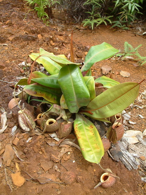 Nepenthes ampullaria from New Guinea